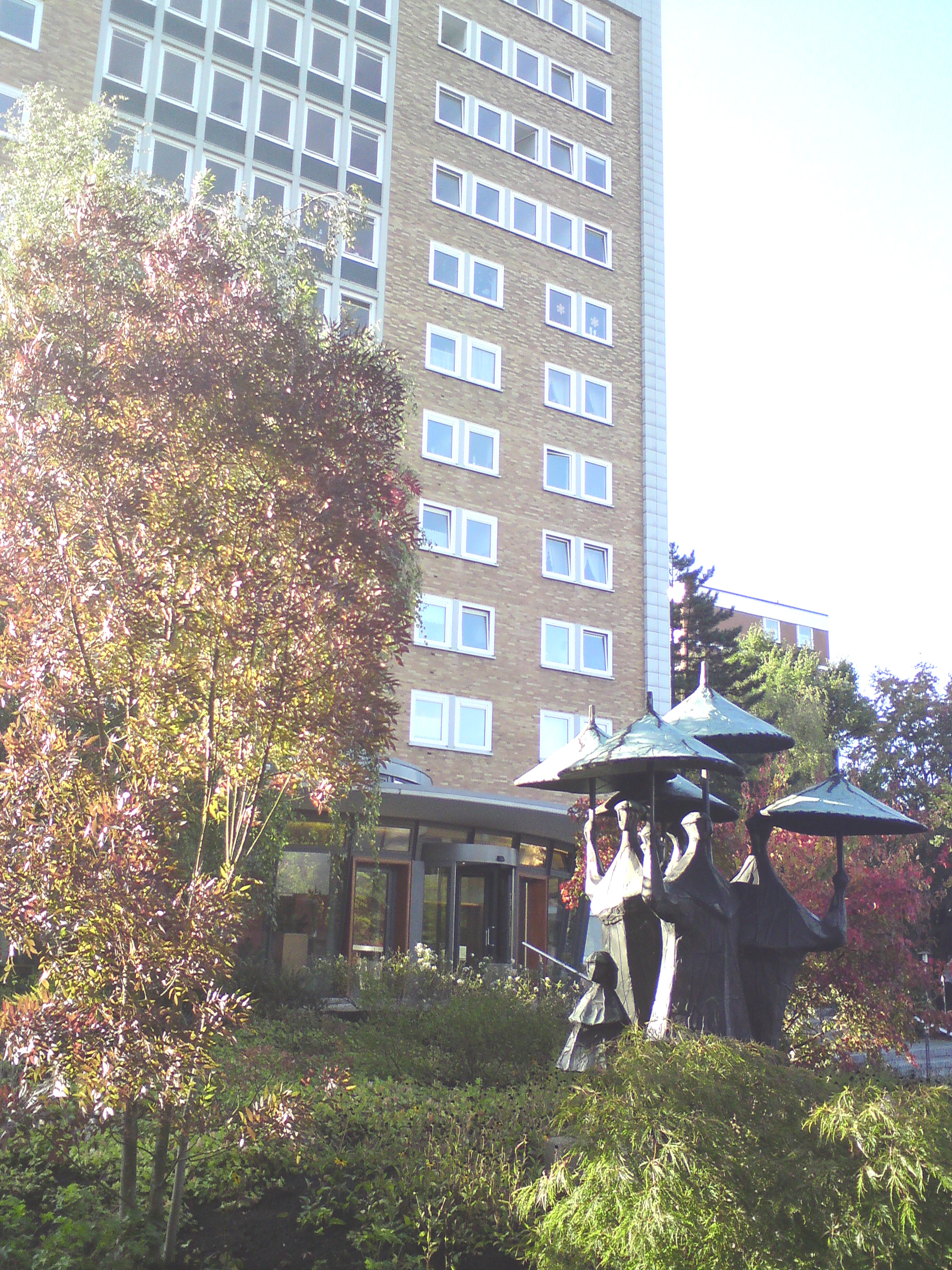 Building of the Bauverein der Elbgemeinden in Hamburg-Sülldorf, Germany